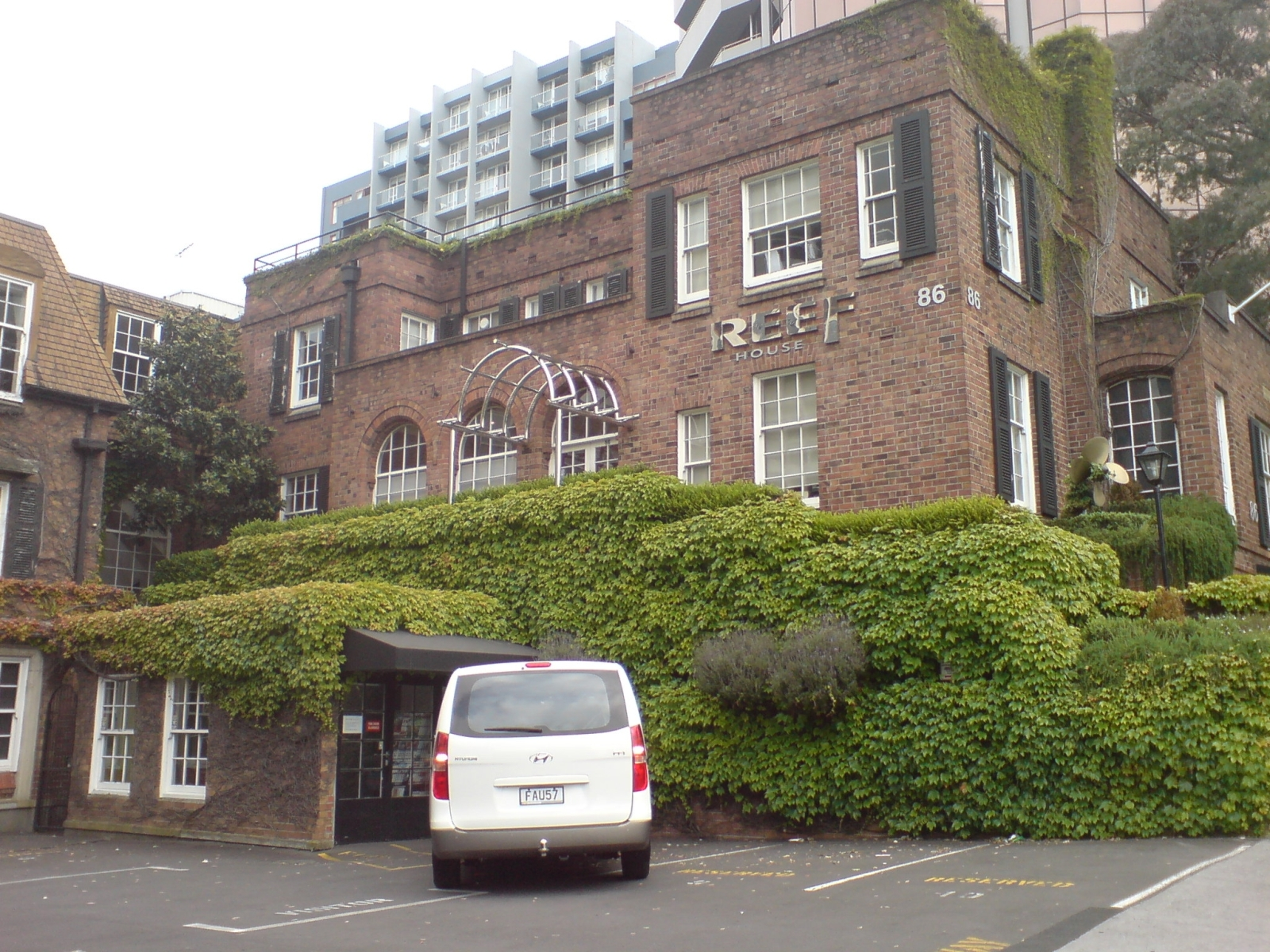 Reef House, the offices of Reef Shipping, a ocean shipping company headquartered in Auckland City, New Zealand. They primarily serve Polynesia. The van depicted is a 2009 Hyundai H-1 2.5 CRDI 8-seater van grey import.